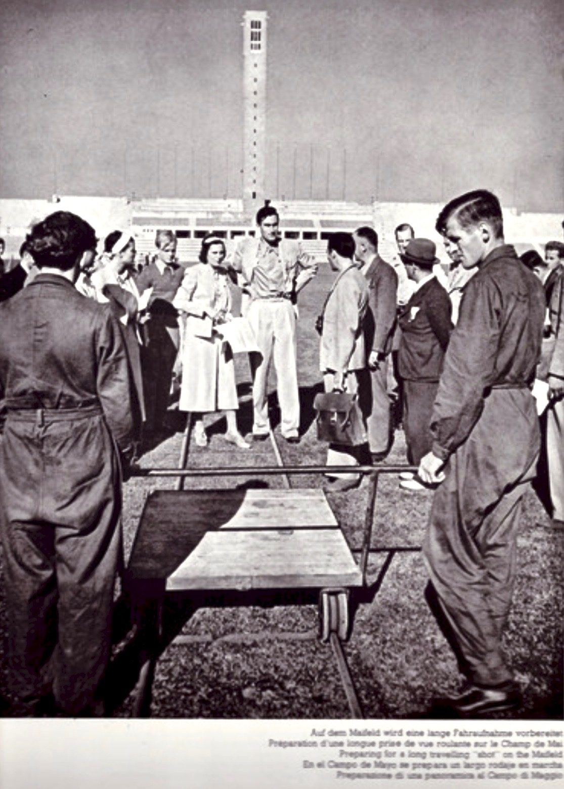 A team of the Berlin-based Olympia-Film G.m.b.H. during a meeting for a working session at Maifeld in summer 1936. In the background the Glockenturm (= Bell Tower) and the Olympic Stadium of Berlin. In the center director Leni Riefenstahl and cameraman Walter Frentz (1907–2004) preparing for a long travelling shot. On the left behind Riefenstahl's back her assistant Wolfgang Brüning (* 1915). The cart on trails was used for the seated cameraman while often Riefenstahl squatted down right behind him to get an impression of the camera's view, their cart pushed and moved by one or two assistants. Without tracks the carts were similar but with relatively large rubber-tyres at the side and small tractable tyres behind.